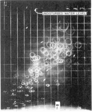 Photograph of the water particle orbits under a – progressive and periodic – surface gravity wave. The wave conditions are: mean water depth d = 2.50 ft, wave height H = 0.339 ft, wavelength L = 6.42 ft, period T = 1.12 s. Figure 6 from: R.L. Wiegel & J.W. Johnson (1950) "Elements of wave theory". Proceedings 1st International Conference on Coastal Engineering, Long Beach, California. ASCE, pp. 5–21.